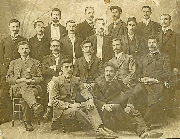 Salonica Bulgarian High School Teachers